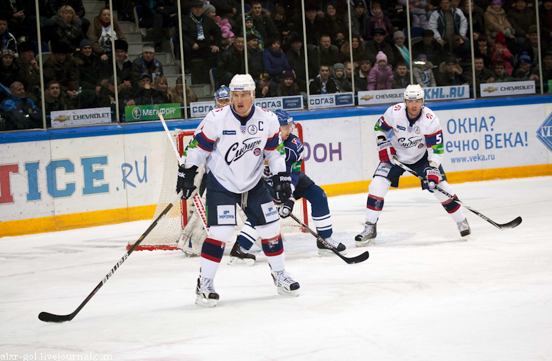 HC Sibir Novosibirsk defensemen Georgijs Pujacs (at left) and Kirill Safronov during KHL game against Amur Khabarovsk on December 4, 2011.